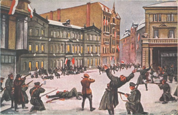 Greater Poland Uprising 1918/1919, Leon Prauziński's painting